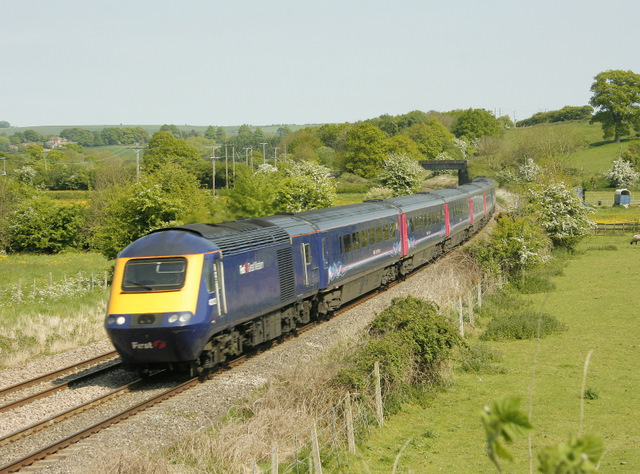 A First Great Western HST approaching Great Cheverell On its way to Westbury. Taken from the bridge at The Green.